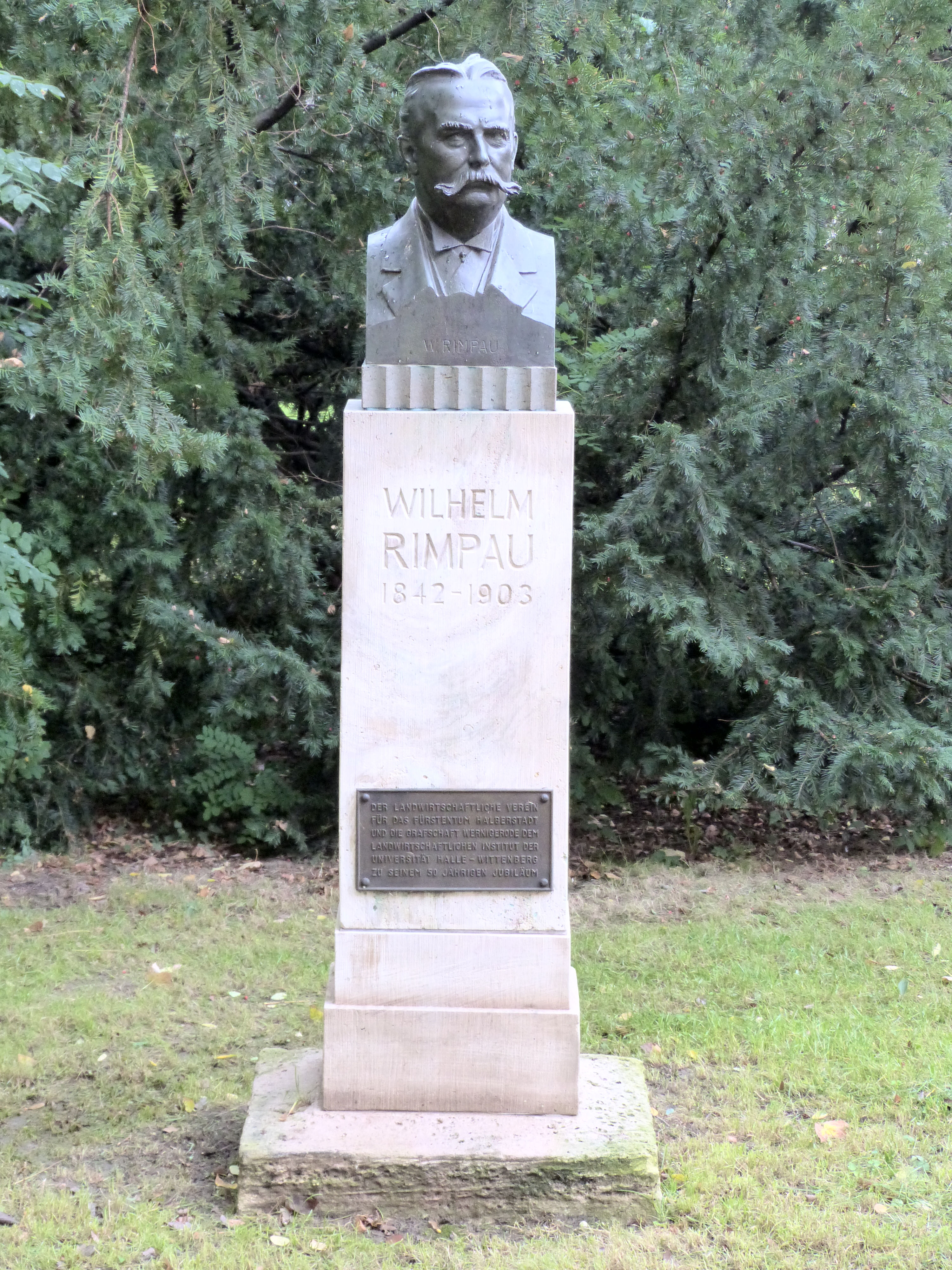 Bust of Wilhelm Rimpau on the Steintor campus, Martin-Luther-Universität Halle-Wittenberg